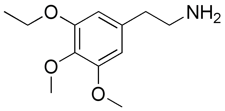 Chemical structure of Metaescaline, drawn in ChemDraw by User:Mark PEA.